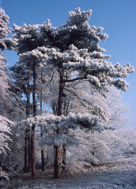 Heavy Hoar Frost on Trees, Hartsholme Country Park, Lincoln This photo was taken on a fantastic cold frosty morning in March '93. The lake was frozen and the trees had a thick coating of hoar frost.